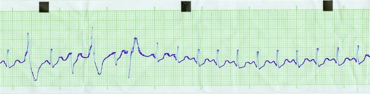 Polymorph extrasystoles followed by sinustachycardia on an ECG strip.